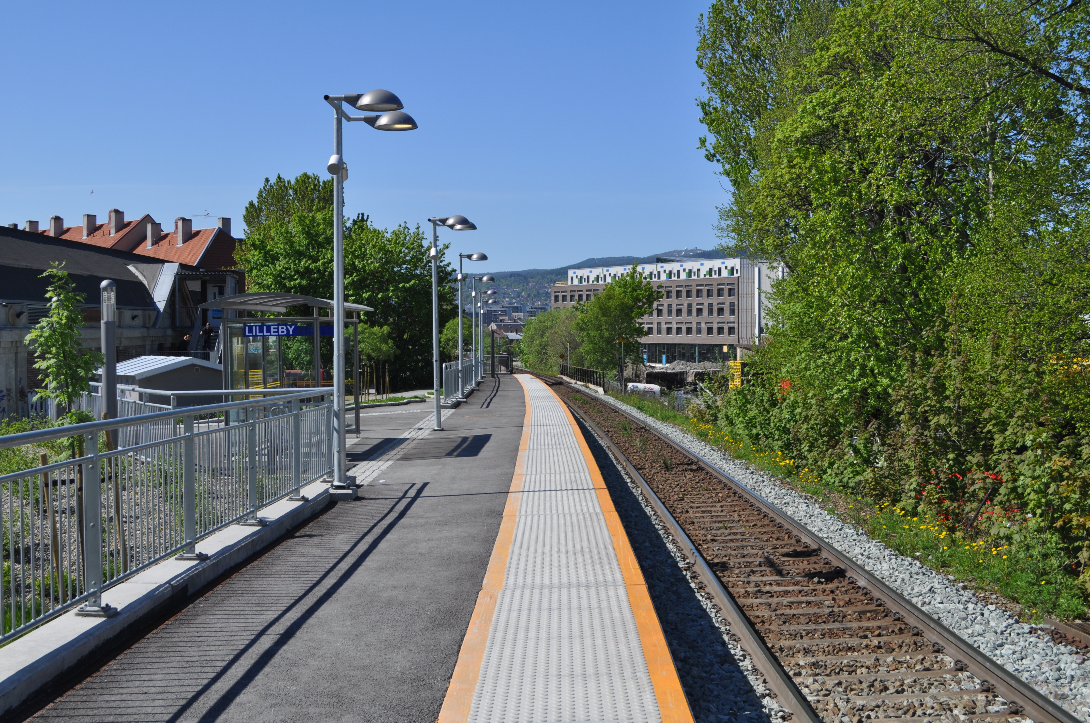 Lilleby train station